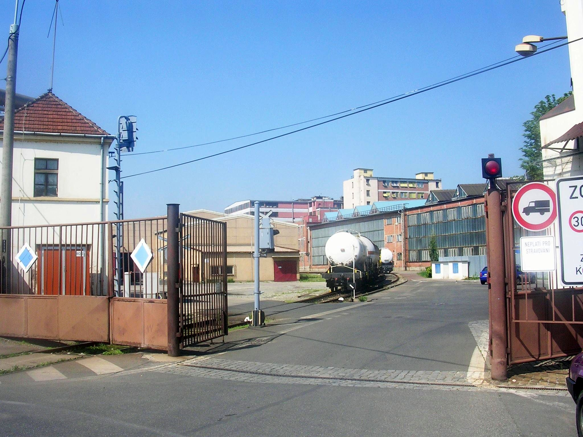 Ústí nad Labem, the Czech Republic.